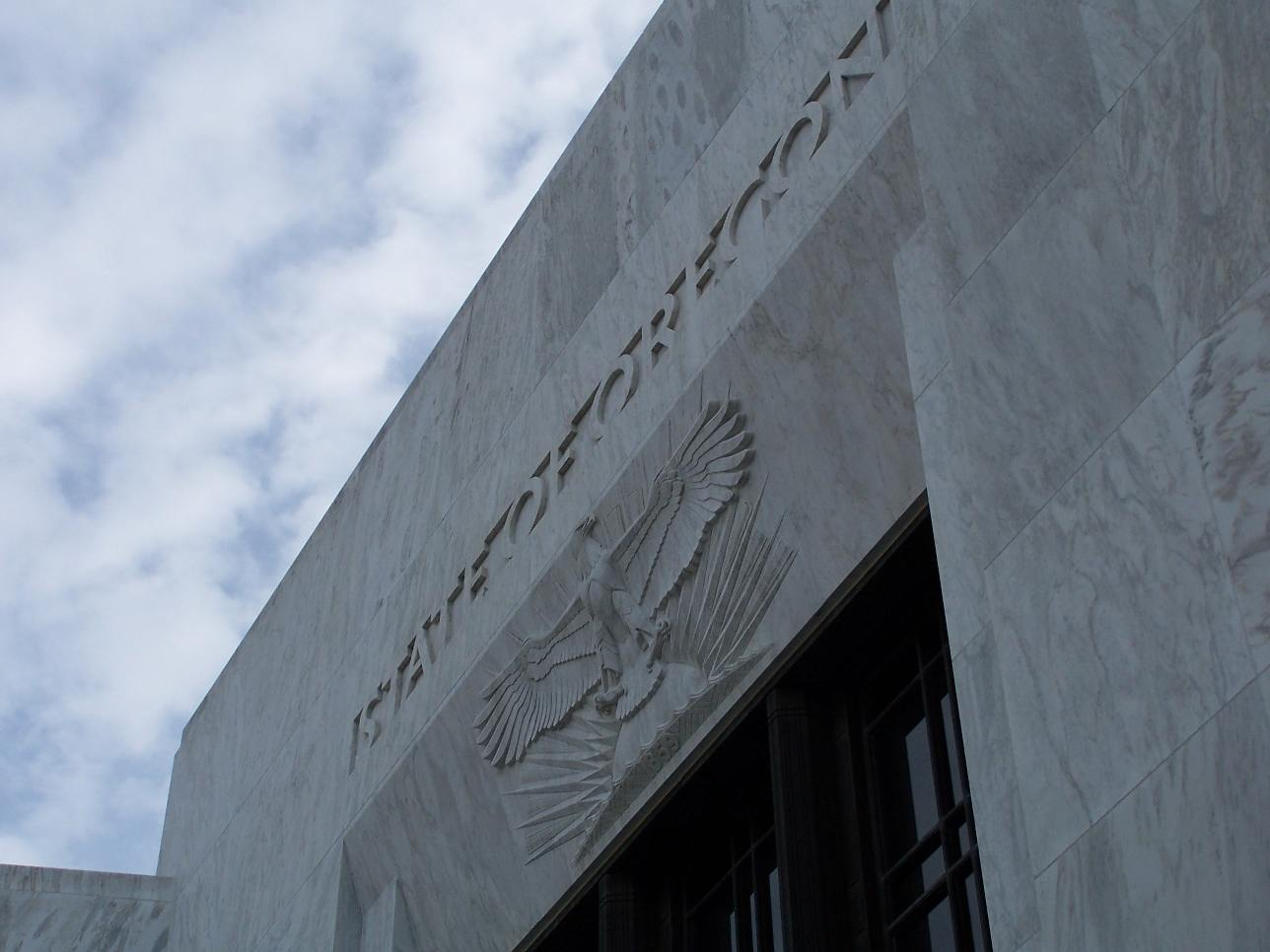 Oregon State Capitol building front (entrance north)